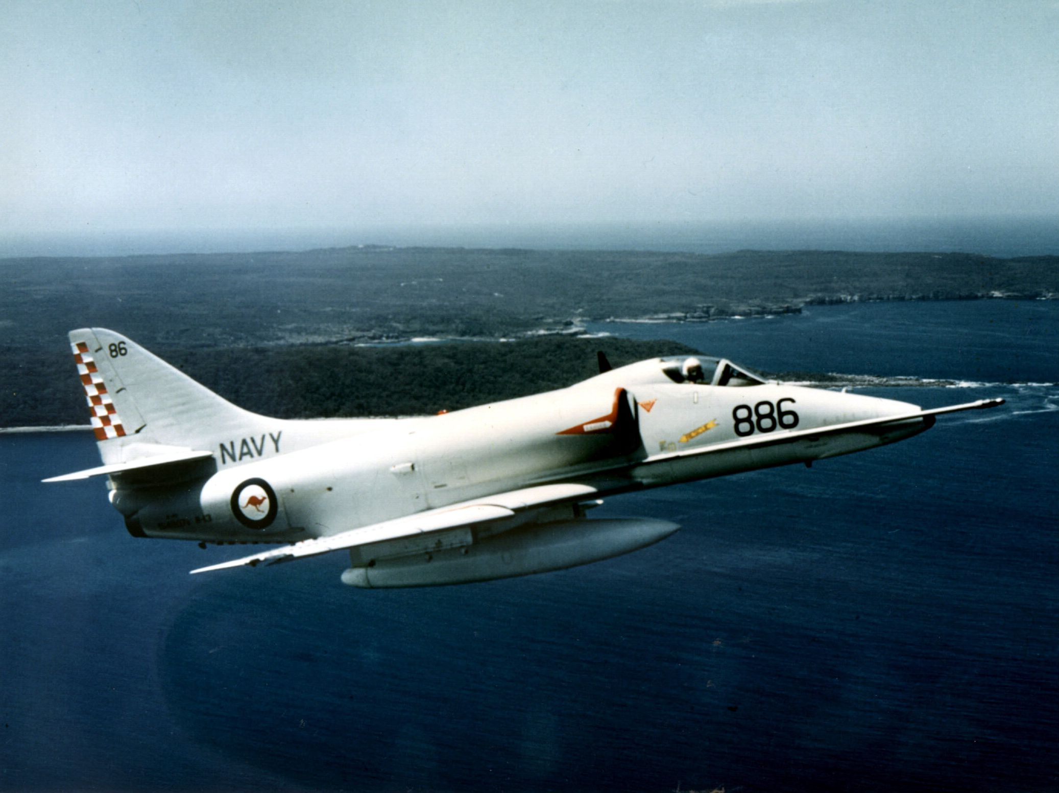 A Royal Australian Navy Douglas A-4G Skyhawk of VF-805 Squadron in flight. The A-4G "886" (USN BuNo 154907) was lost at sea when it rolled off the deck of RAN carrier HMAS Melbourne (R21) on 24 September 1979. Melbourne was caught in a storm circa 350 km east of Australia when the ship suddenly rolled 20 degrees to starboard and the aircraft was lost.